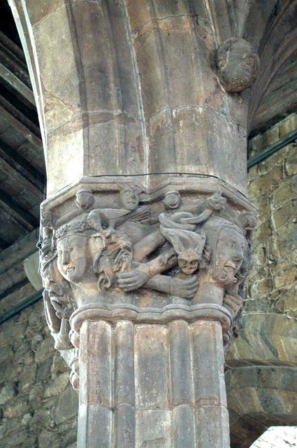 St Mary, Bloxham, Oxon - Capital